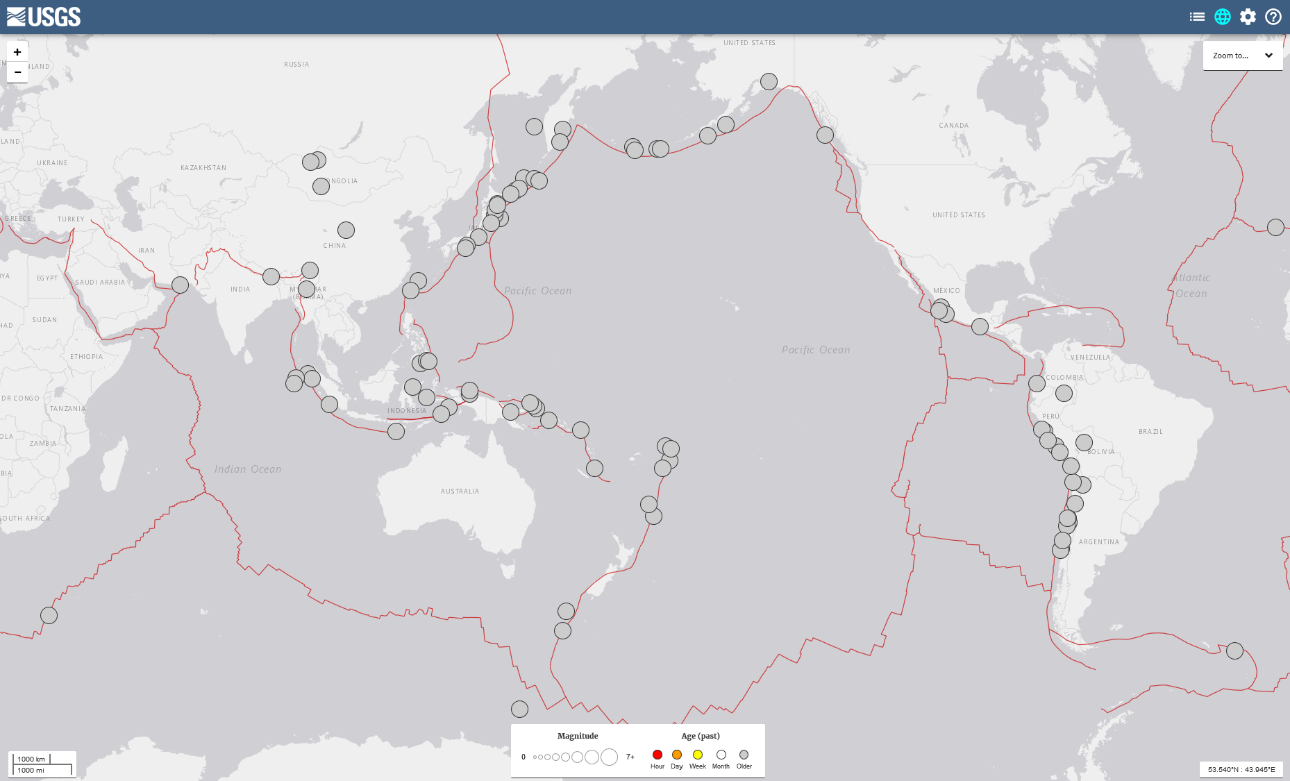 Earthquakes (M8.0+) since 1900 through 2017 10/08. M 8.0+ total of 93 EQs. 82 of them were happened in Ring of Fire. other EQs from USGS Earthquake Catalog M 7.0-7.9, 1258 EQs. M 6.0-6.9, 9713 EQs. note: M6.0-6.9 class, far less EQs of 1900-1949 in USGS Earthquake Catalog. see note at Category_talk:Lists_of_earthquakes_by_year#Fewer number of M6 in USGS EQ catalog